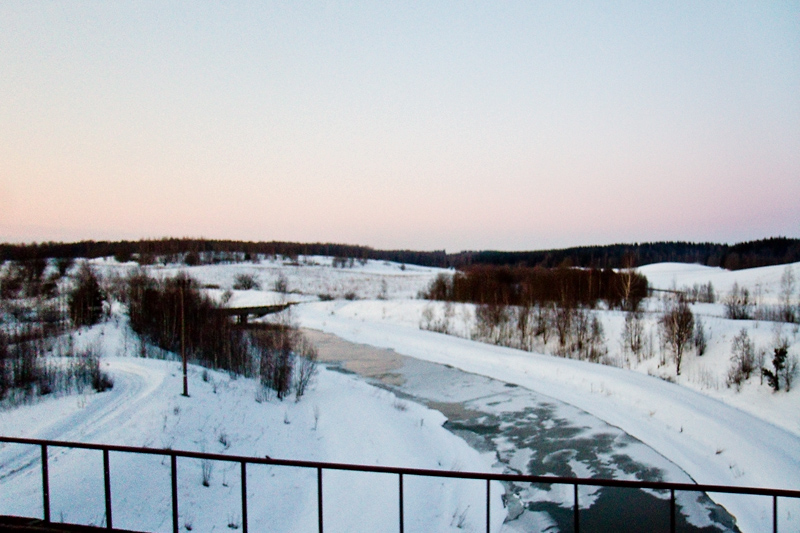 Main canal of Vialejka-Miensk water system. Maładečna district, Belarus.